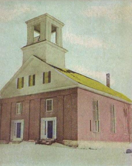 Richmond Community Church, Richmond, New Hampshire. Designed by Timothy Pickering, it was built in 1838.